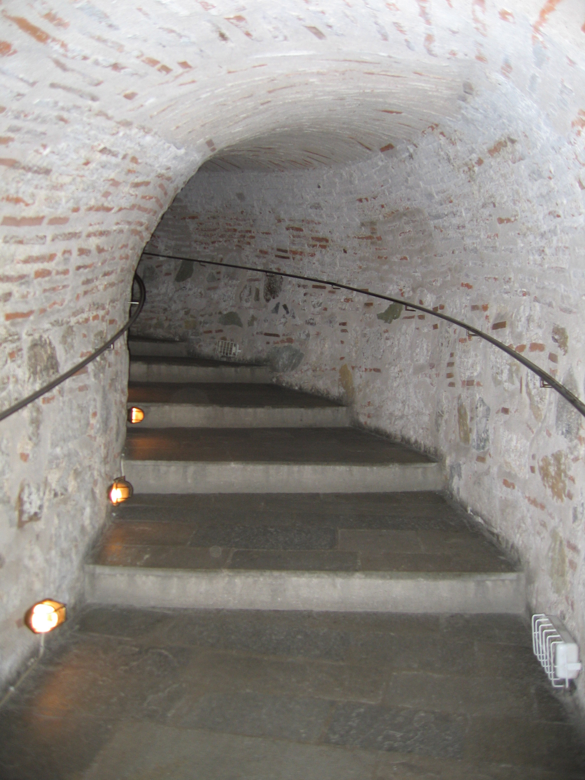 View from inside the spiral hallway that winds up inside the White Tower in Thessaloniki, Greece. Photograph taken by Mark J. Nelson in June 2004.